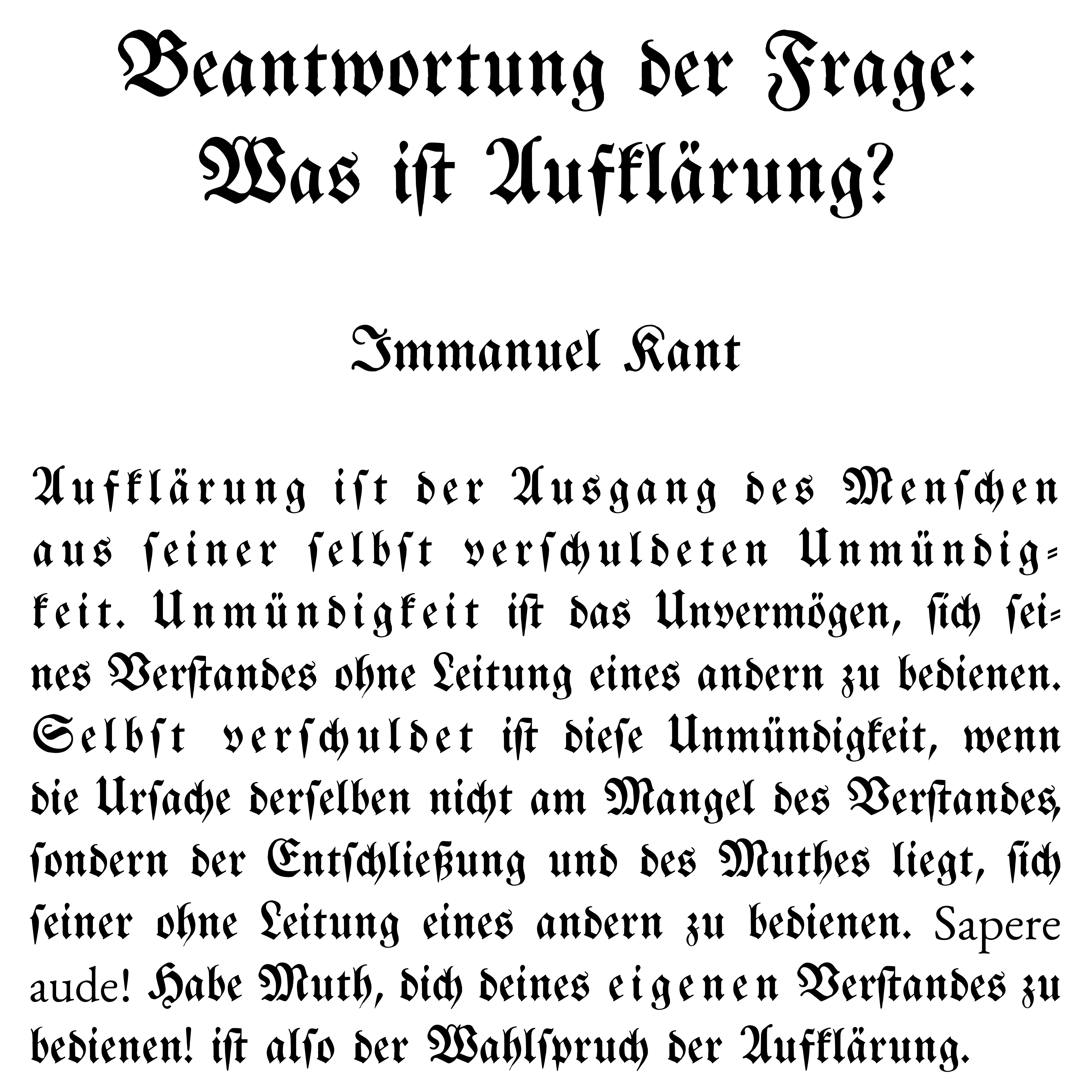 Beginning of Immanuel Kant’s text “Was ist Aufklärung”. Set in Dieter Steffmann’s Breitkopf Fraktur.